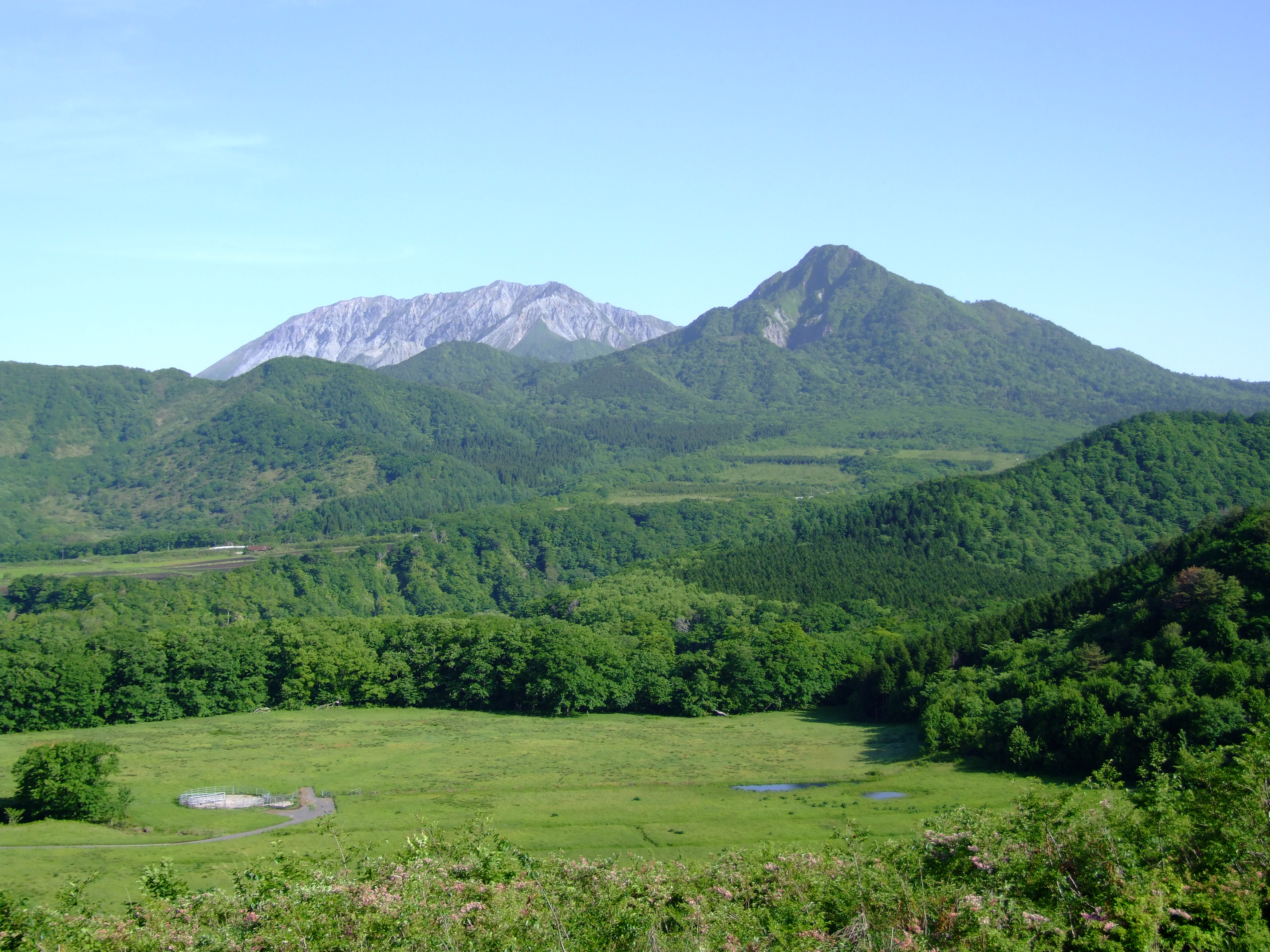 Mt Karasugasen and Mt Daisen in Tottori pref. Japan